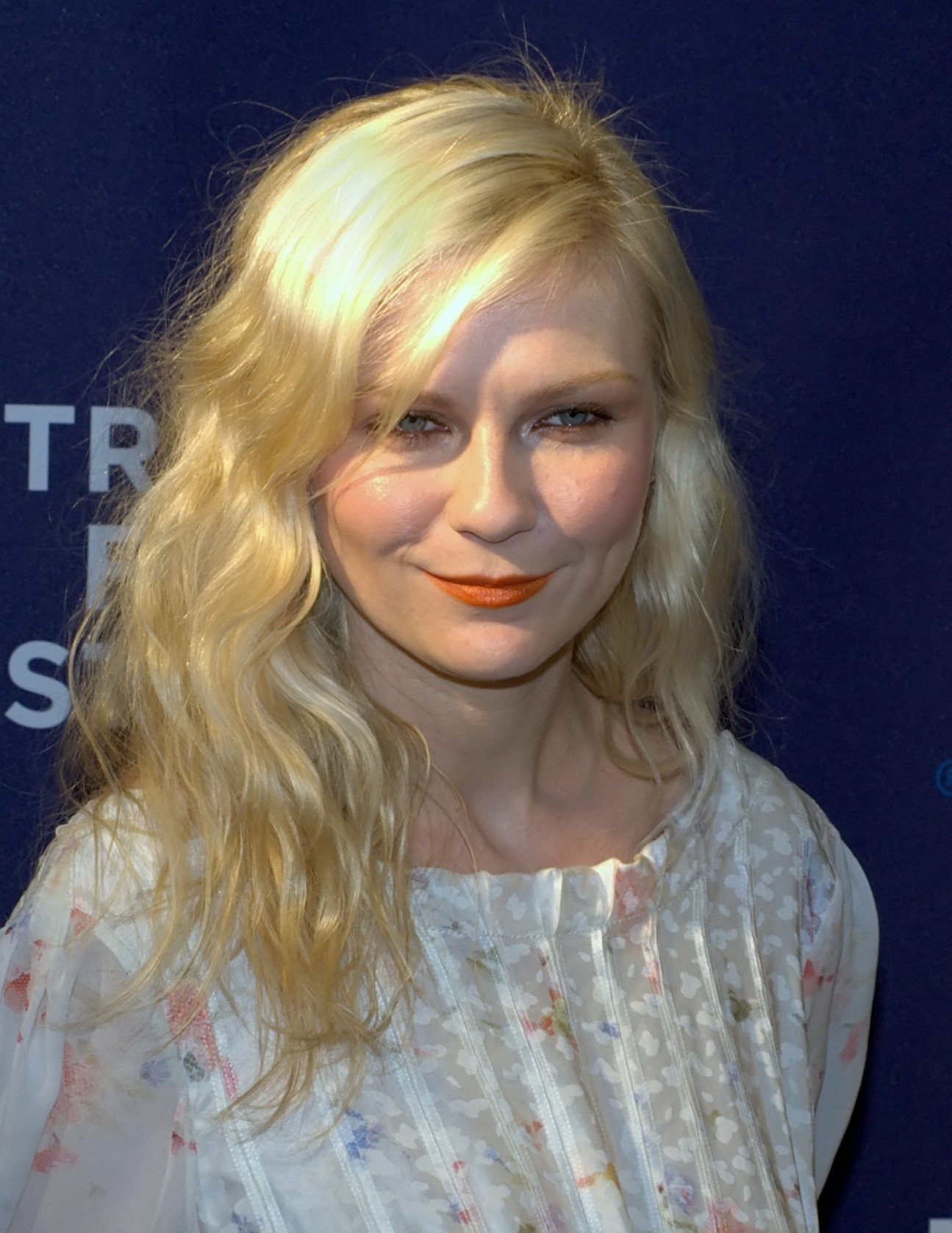 Kirsten Dunst at Tribeca Film Festival 2010